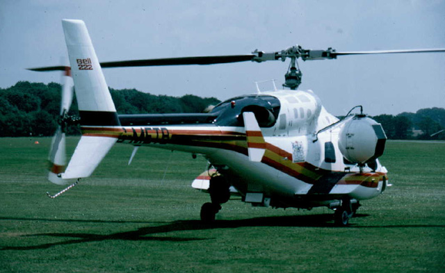 Bell 222 registered G-METB of the Metropolitan Police Air Support Unit